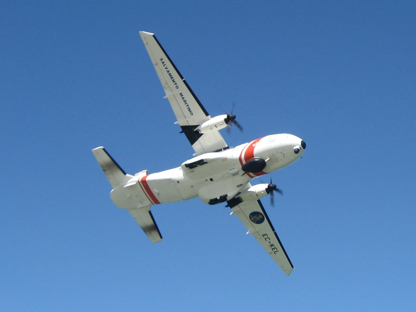 CASA CN-235-300 MP of the Spanish Sea Rescue Service, Vigo International Airshow, Spain.